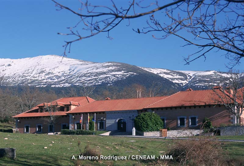 National Center of Environmental Education